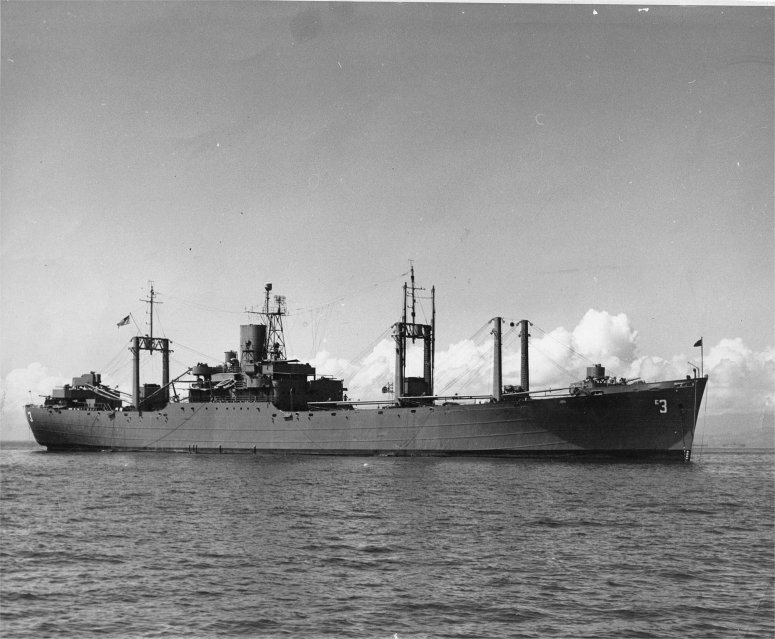 Photo taken from NavSource ( I have an 9 x 10 copy of this photo. I think it was taken in 1945. As far as I know, each member of the crew received a copy. Elmer L. Meckel, RM3c, USS Lassen (1945-1946).